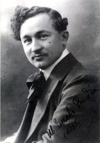 Ivan Entchev – Vidyu, Foto - 1913